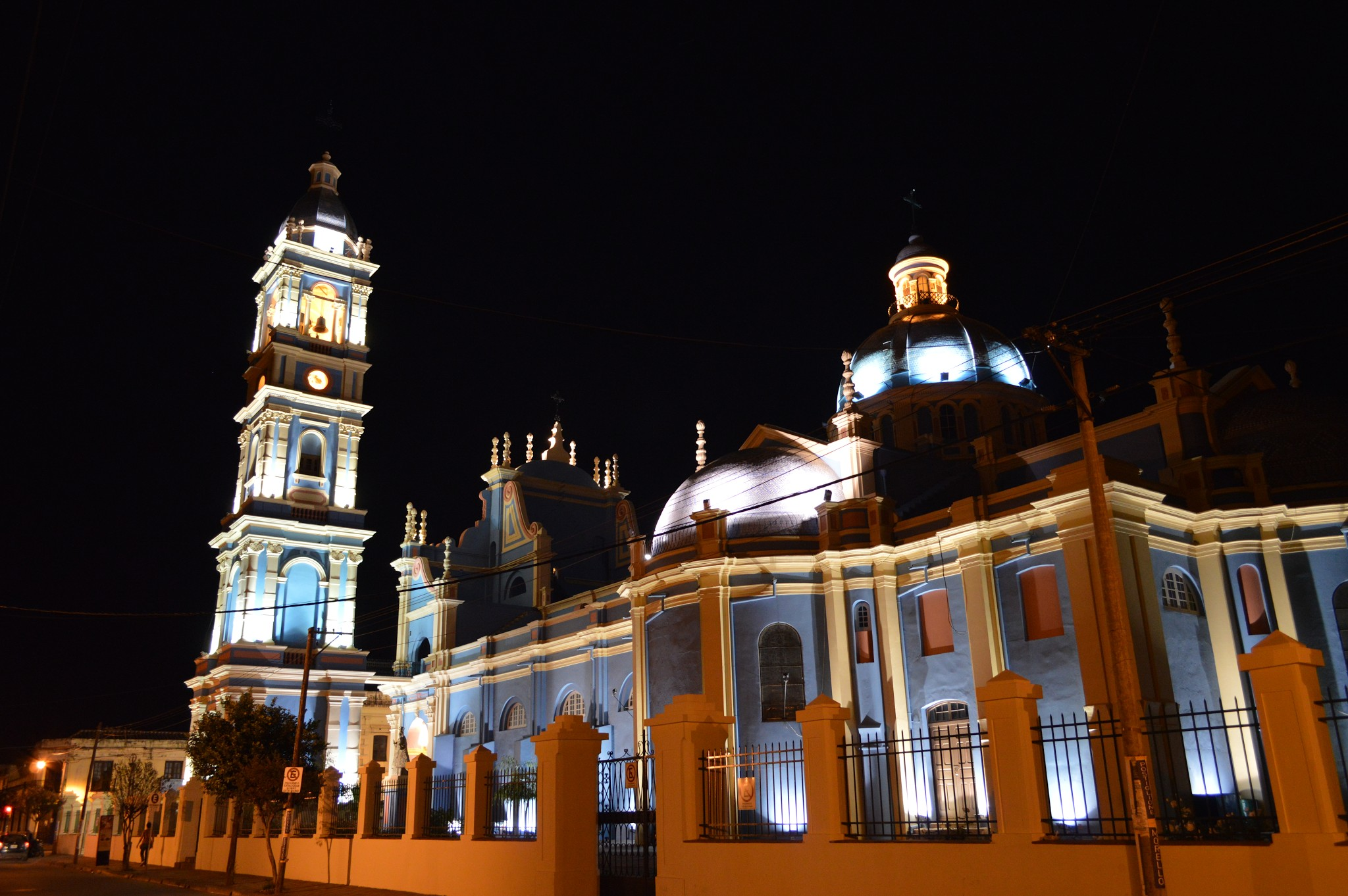 Iglesia La Viña, provincia de Salta. Argentina